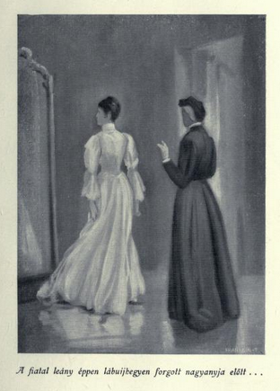 Illustration to Wohl Stefánia's novel